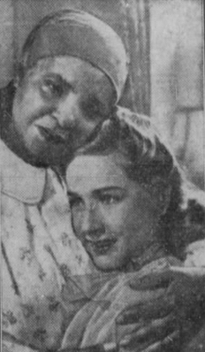 Jessie Grayson and Bonita Granville in a scene from the film Syncopation 1943, as published in the Post-Register, Idahp